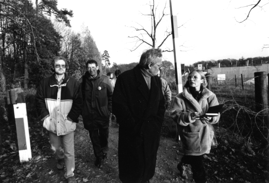 Dieter Hildebrandt visiting Fort Redleg near Heilbronn, Germany